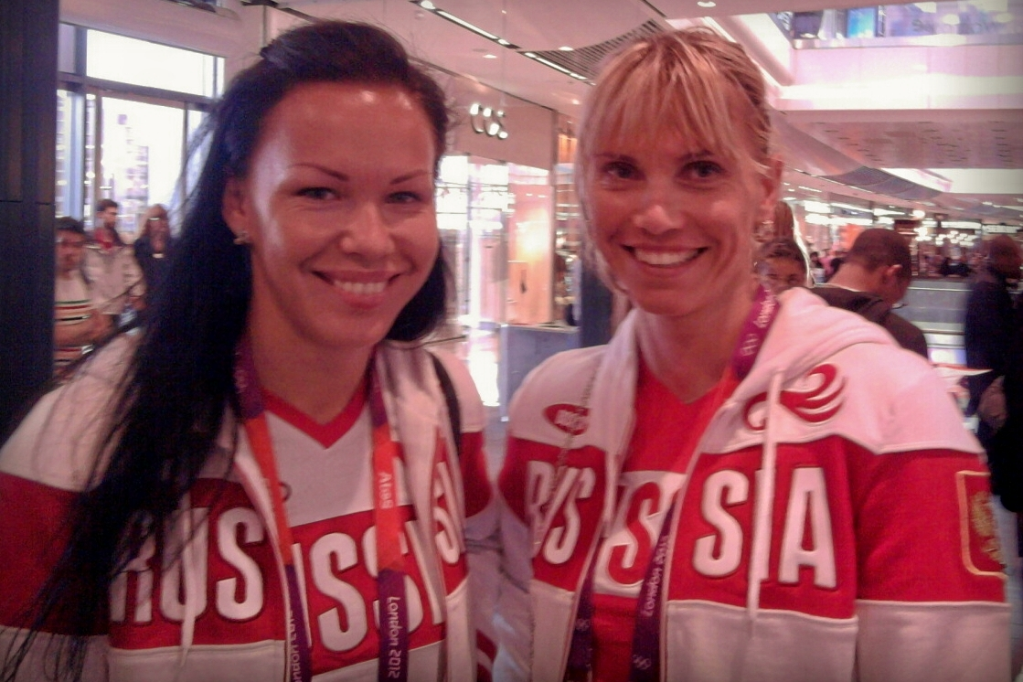 Yelizaveta Demirova and Tatyana Veshkurova, at The London 2012 Summer Olympic Games